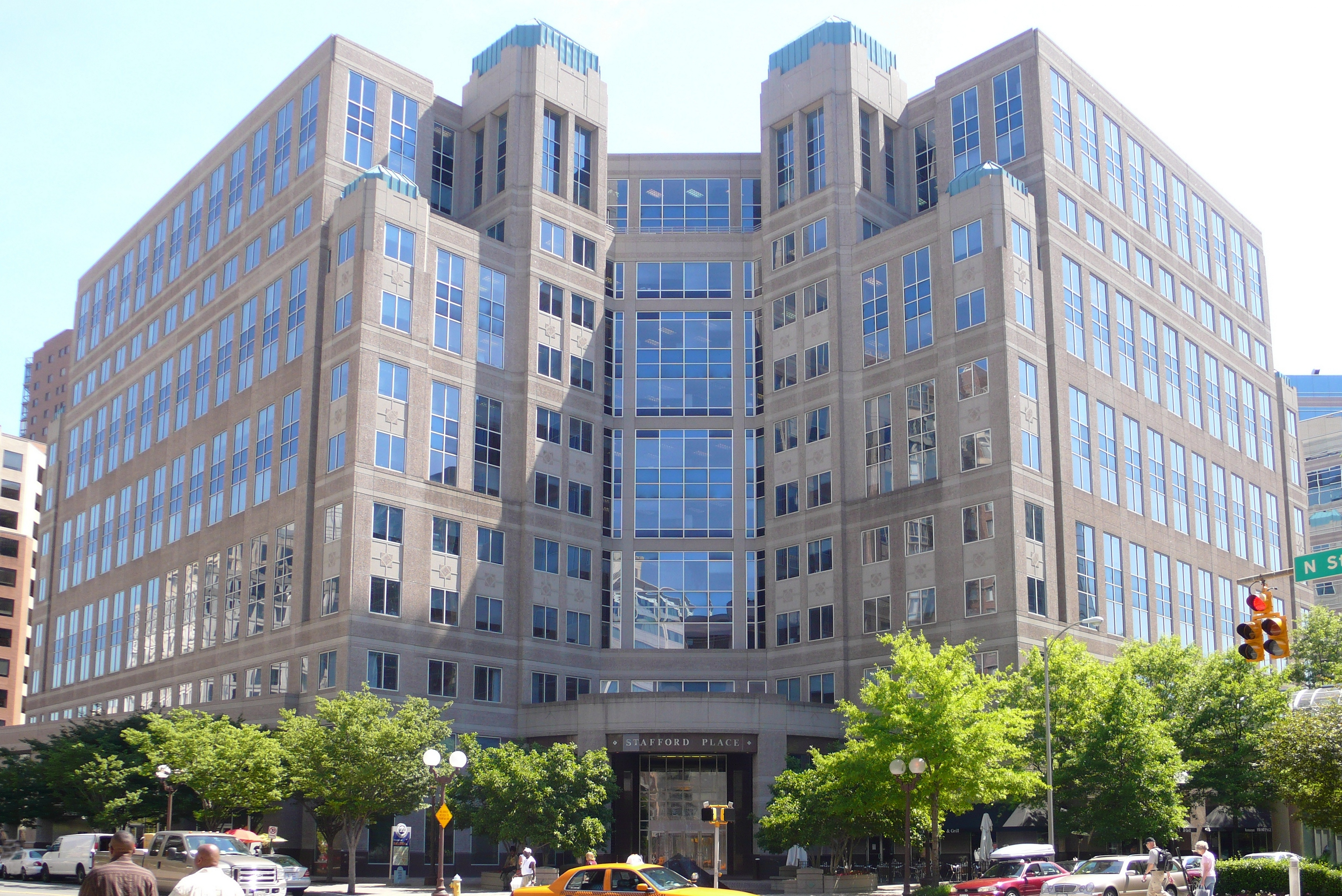 The National Science Foundation (NSF) building, 4201 Wilson Boulevard, Arlington VA.